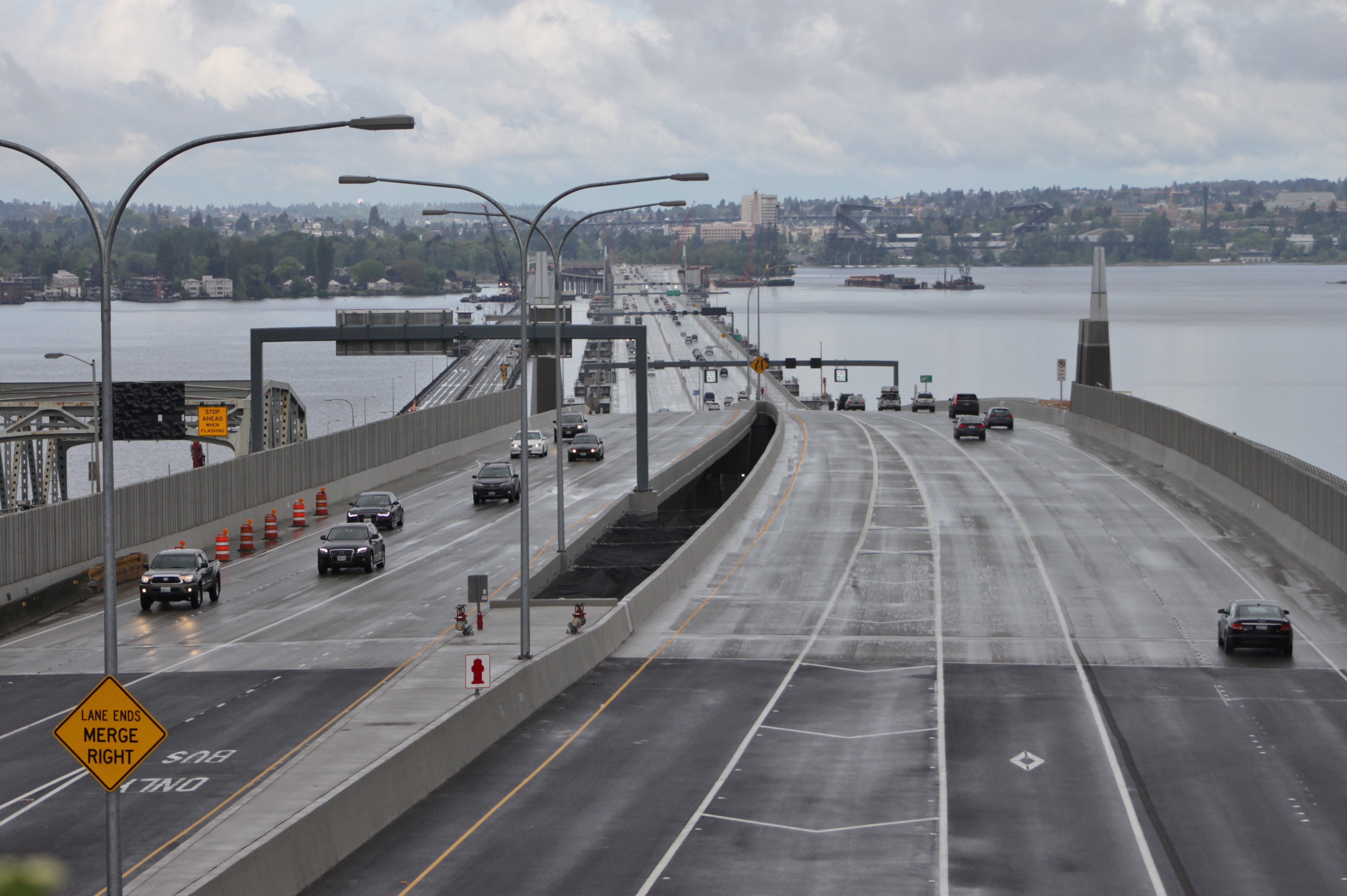 The new Evergreen Point Floating Bridge, on the first weekday of bi-directional traffic. Photographed from the Evergreen Point lid on the east end of the bridge.